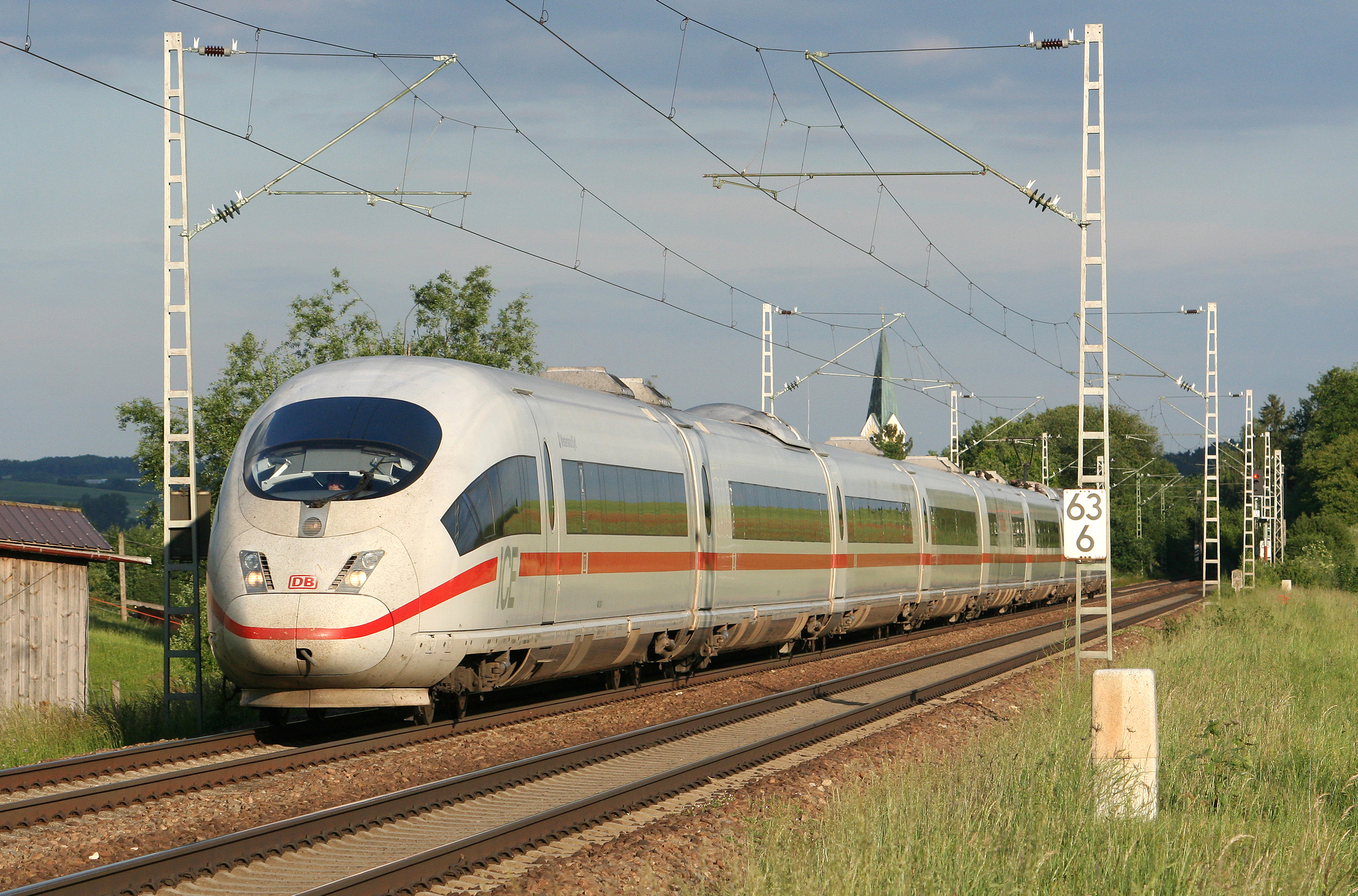 An ICE 3 high-speed train on the Ingolstadt-Munich line near Fahrenbach.